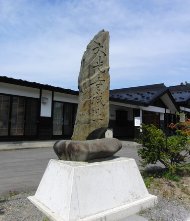 Daikoji castle site(Aomori prefecture, Japan)